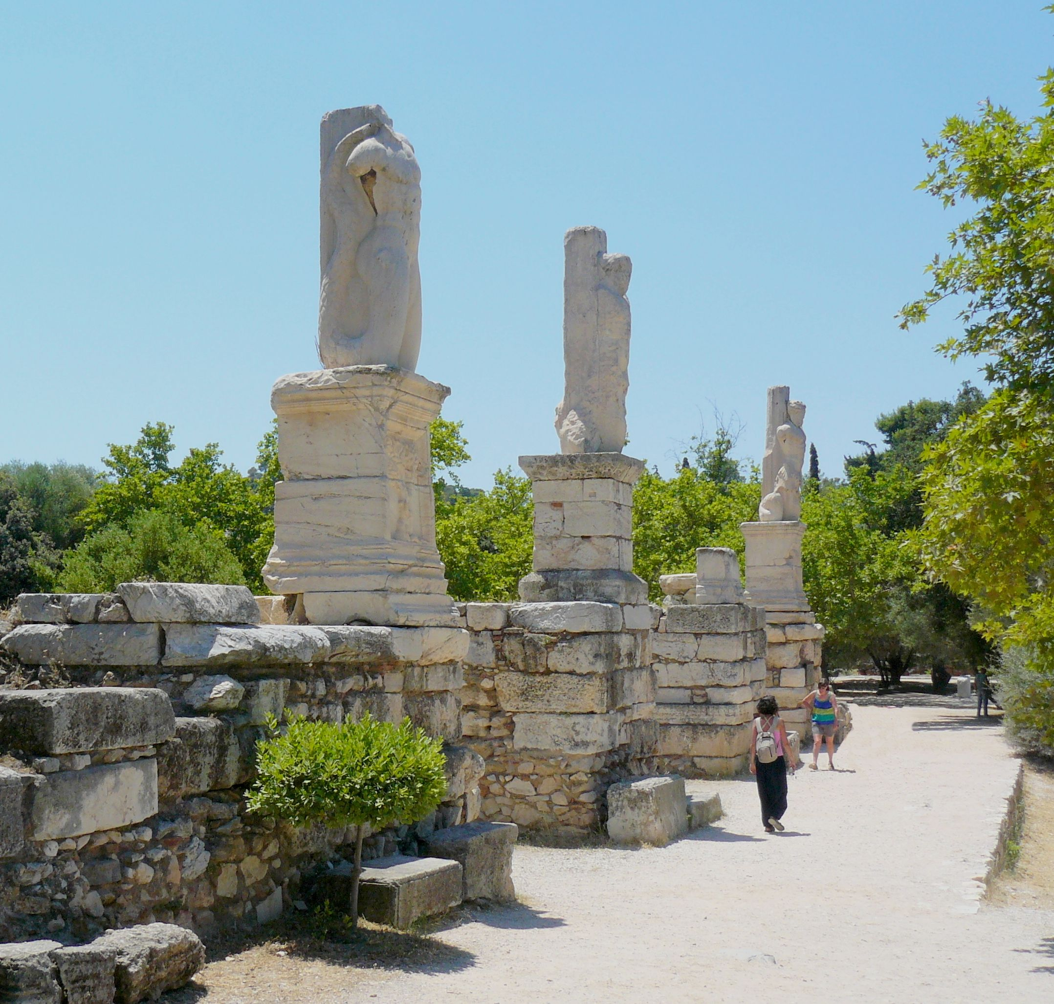 The entrance to Odeon of Agrippa with statues of Giants and Tritons, Ancient Agora in Athens.